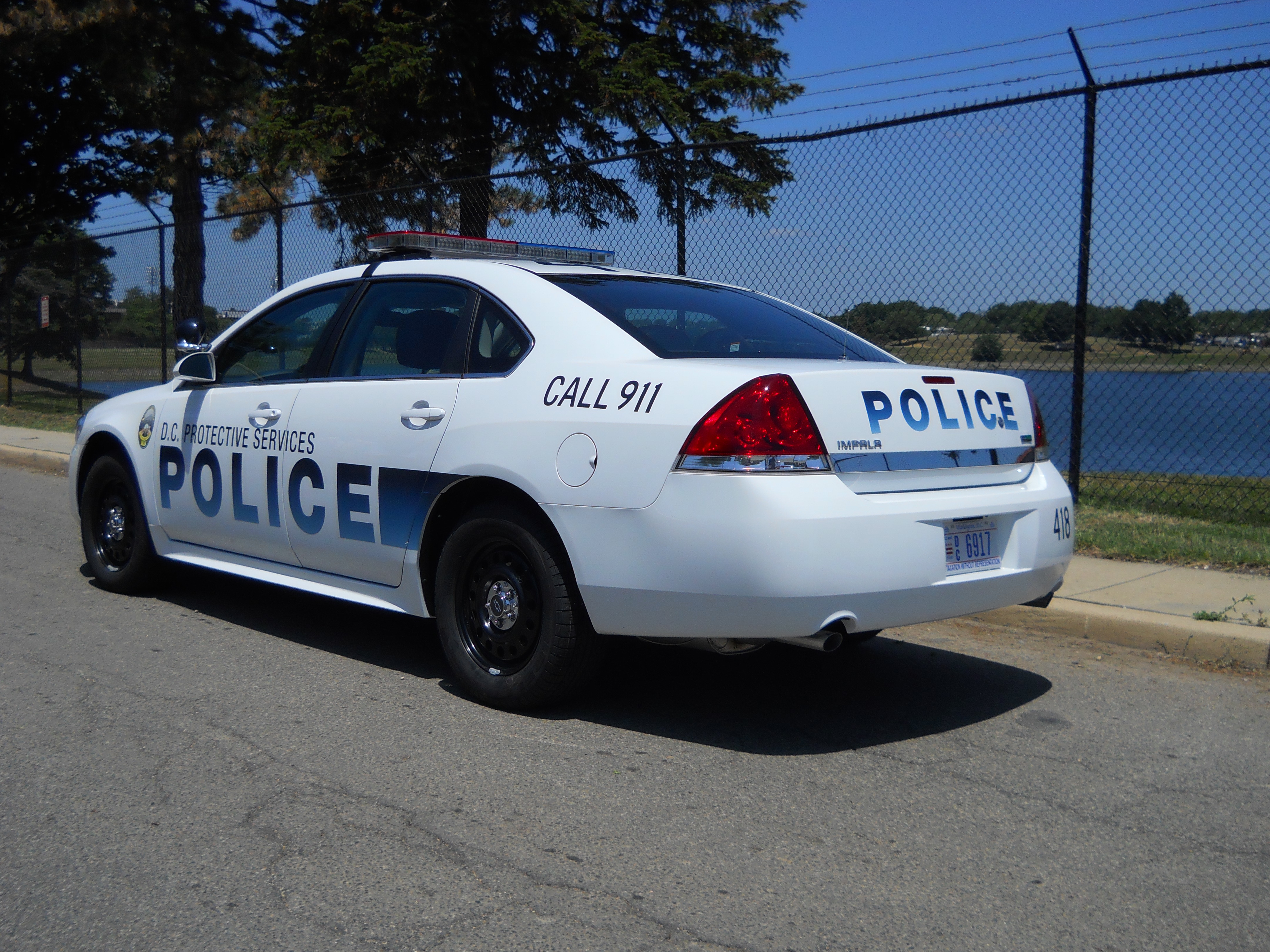 Cruise car of the District of Columbia Protective Services Police Department